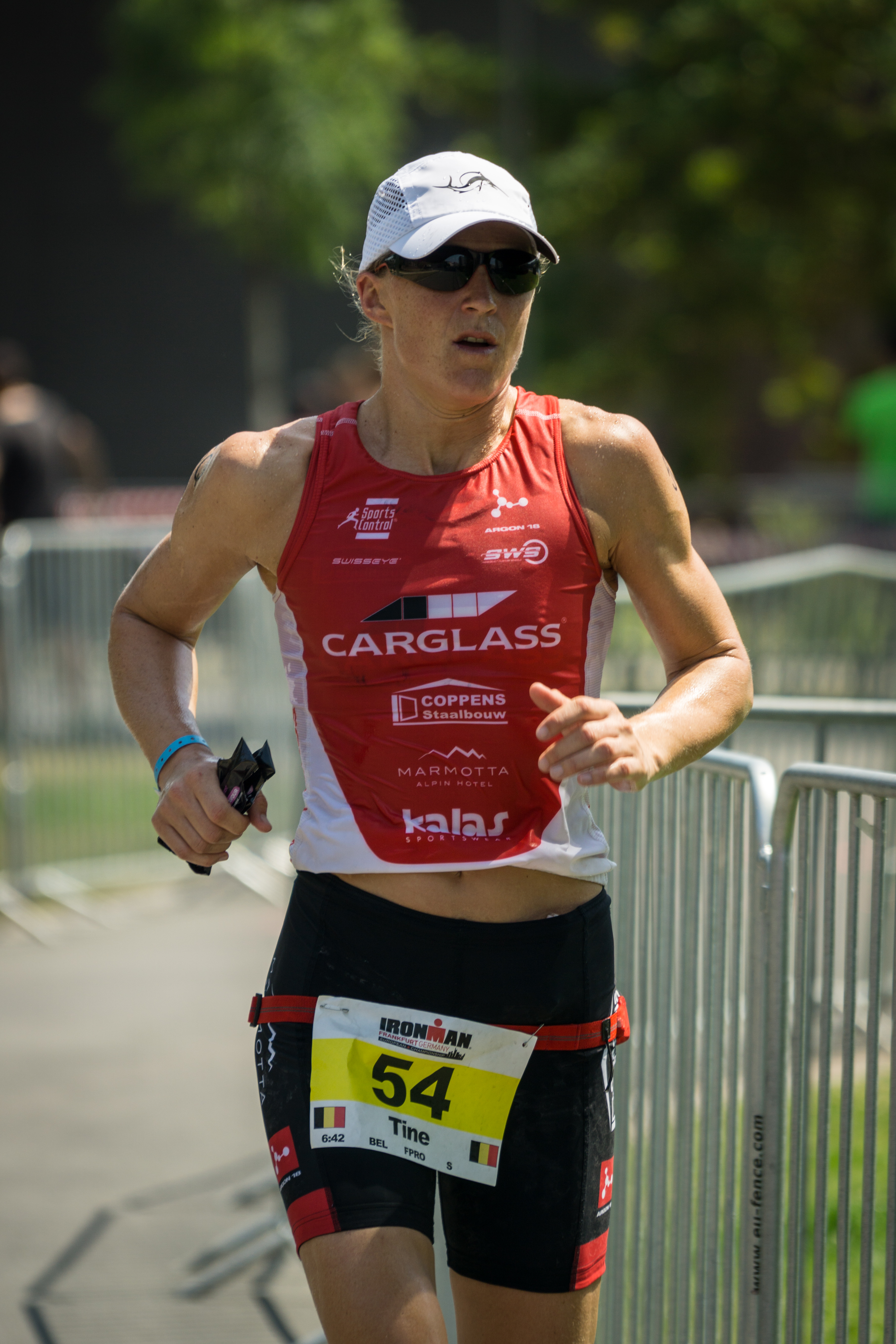 Tine Deckers at the 2015 Ironman European Championship in Frankfurt am Main.